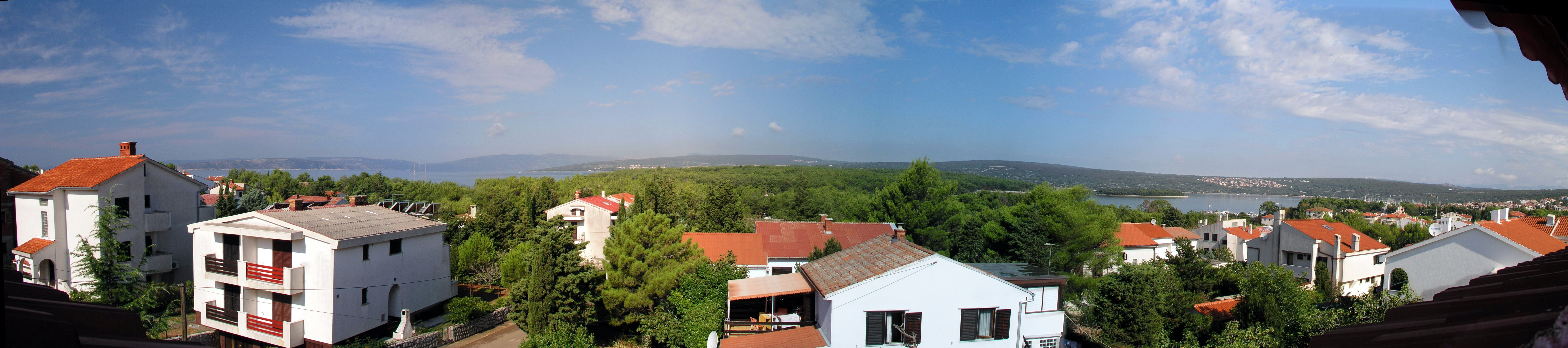 Panorama, town Punat (Otok Krk, Hrvatska).